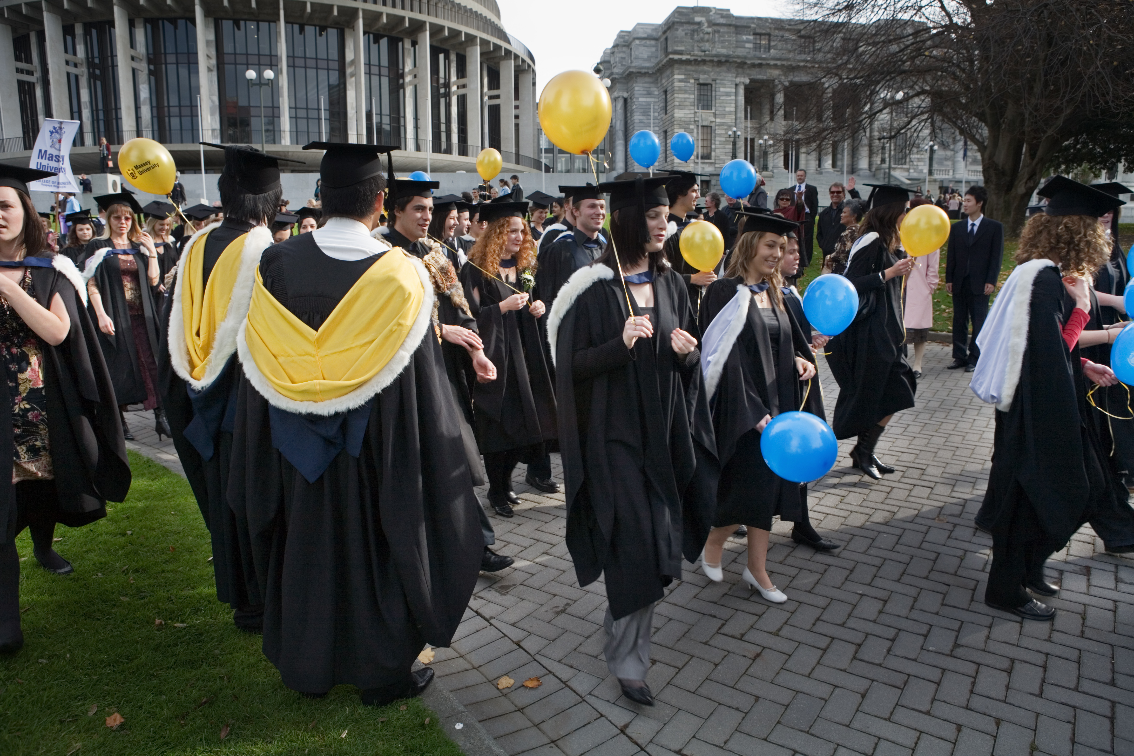 Graduates of Massey University, Wellington, New Zealand, 2006